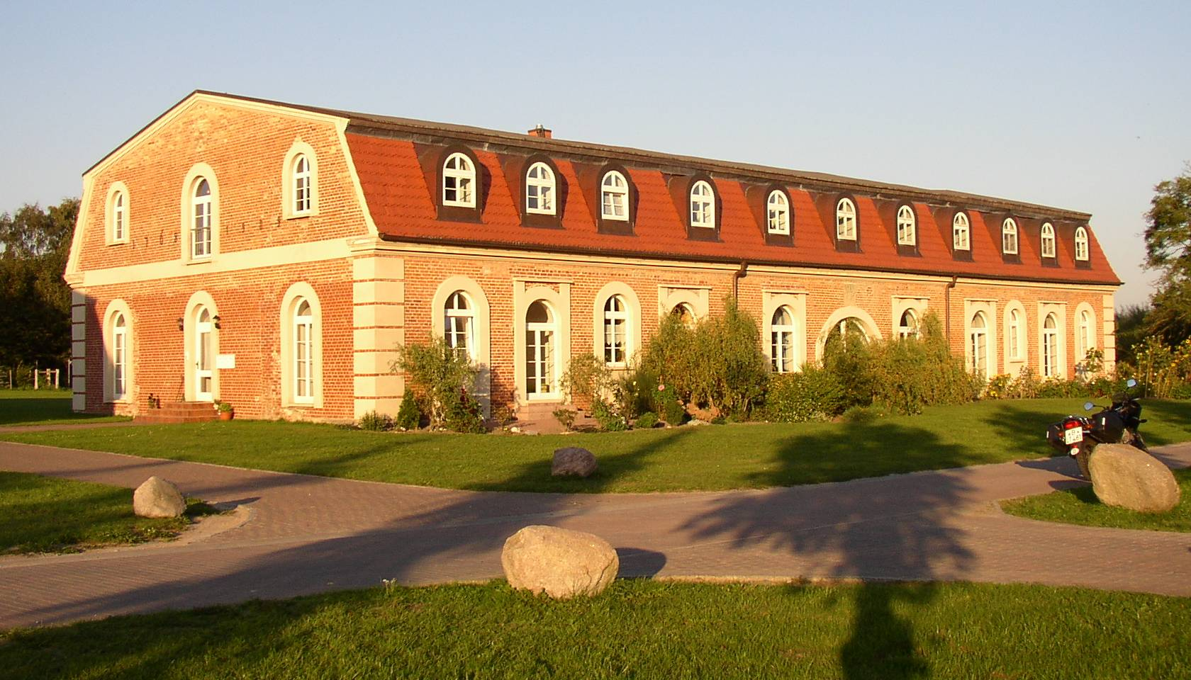 Stable in Prebberede in Mecklenburg-Western Pomerania, Germany